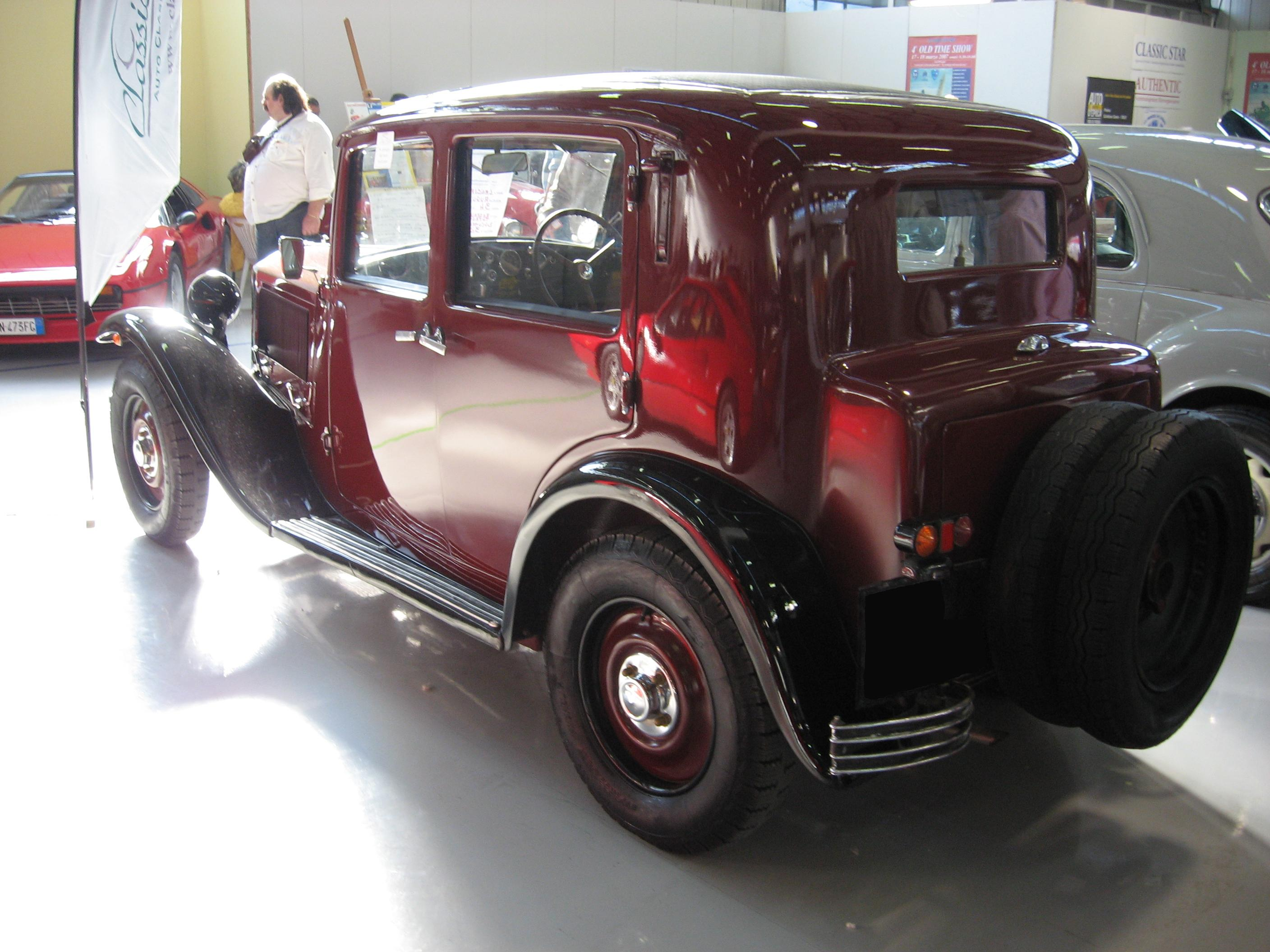 Subject: Lancia Augusta Author:Luc106 Date:18 march 2007 City/Country: Forlì (Italy) Event: Old Time Show I release all rights in the public domain.